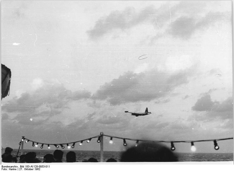 Zentralbild, Hanke, 1962-11-28 – “Völkerfreundschaft” defies US pirates. While the Republic of Cuba has to suffer the intensified sea blockade and permanent provocations of the american mercenaries, on October 27th 1962 East Germany's biggest holiday ship “Völkerfreundschaft” arrives in the Cuban capital. The Crew and its 550 passengers was welcomed with great cheer by the population of Havana. For them is was an expression of international solidarity. On its way the “Völkerfreundschaft” was threatened by a navy airplane of the US Air Force and a US torpedo boat. Our Picture shows: On October 27th 1962 an airplane of the US Navy provocatively overflew the “Völkerfreundschaft” three times. Information added by Wikimedia users.